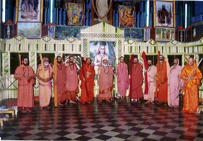 Photo taken during regional Shankaracharya Meet organized by Shringeri Jagdguru at Shringeri.